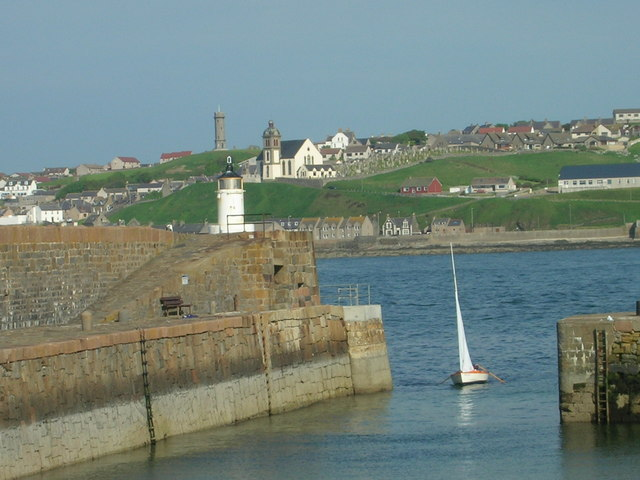 Banff Harbour Once a busy fishing harbour, now used by pleasure craft.